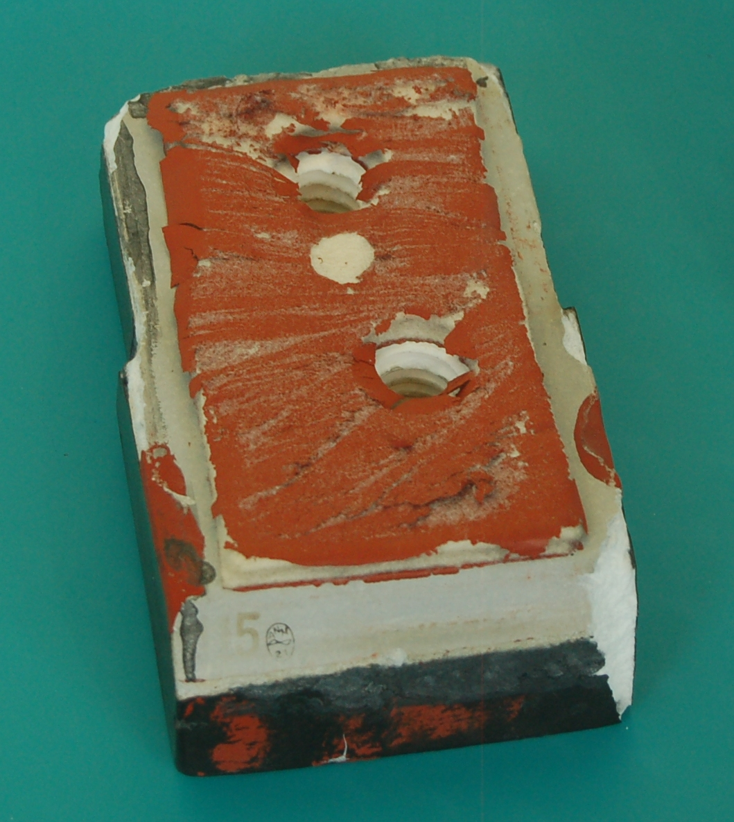 Photograph of one of the insulation tiles which covered the Space Shuttle Atlantis during mission STS-76. Taken at the National Space Centre, Leicestershire, England.